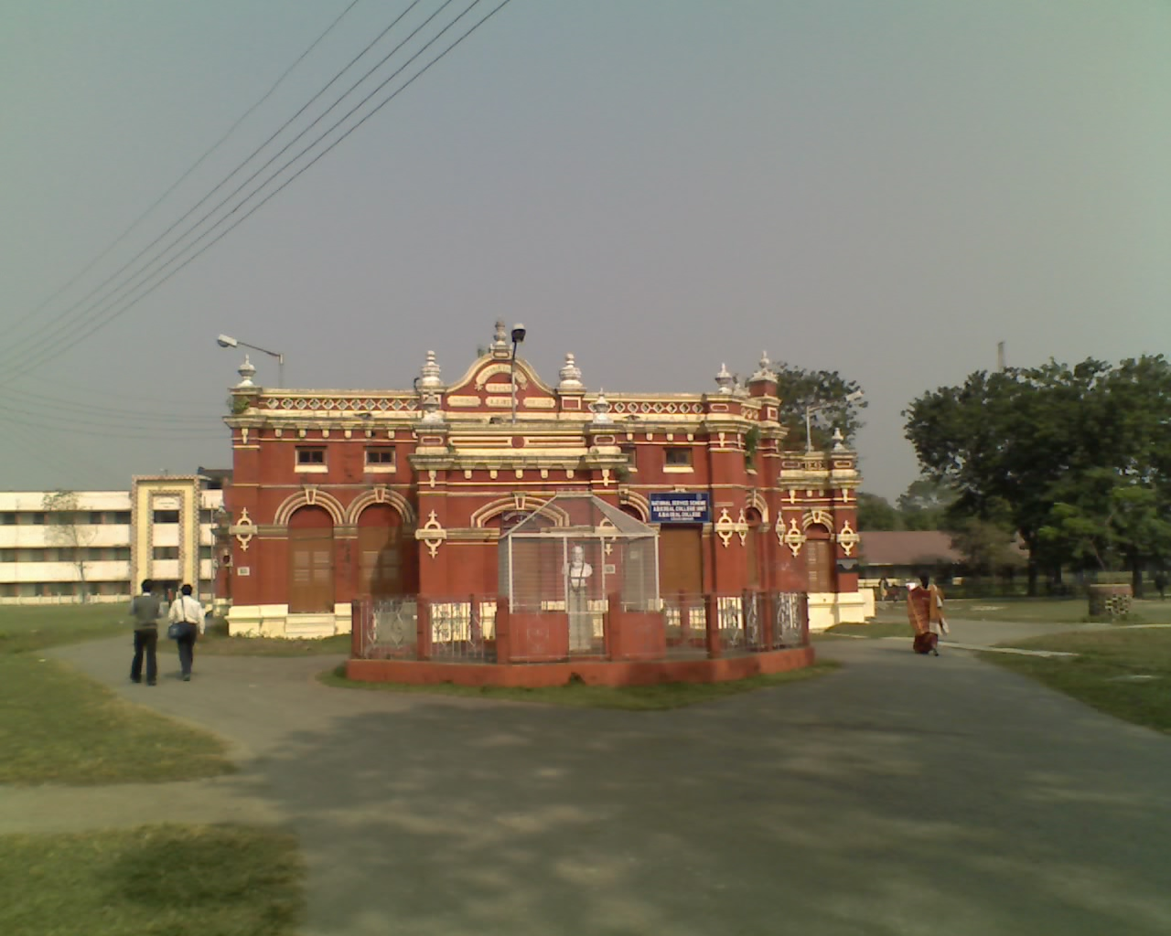 The Main Old Building of A.B.N. Seal College, Cooch Behar